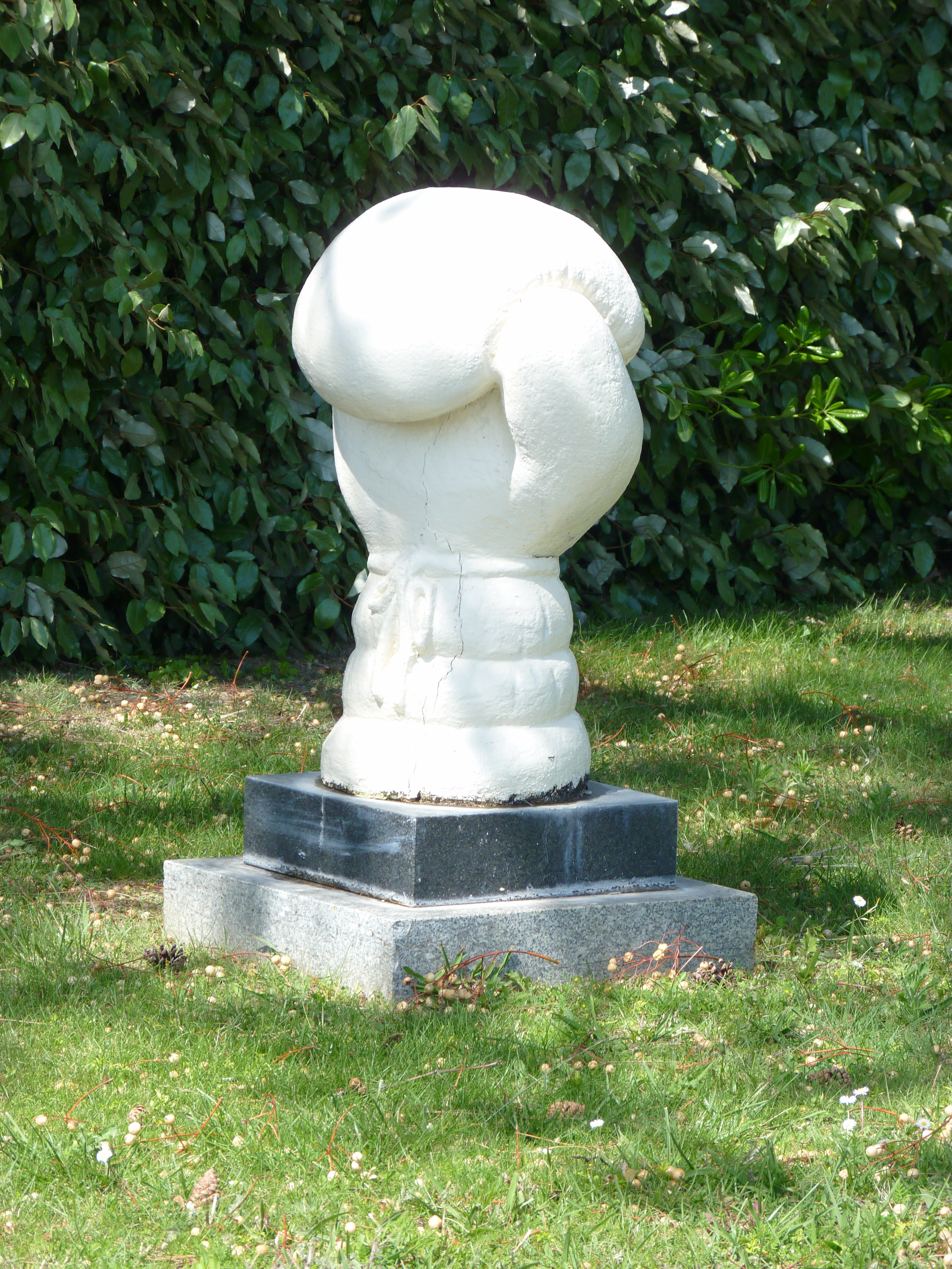 Glove of stone honoring Marcel Cerdan in the South Cemetery of Perpignan.